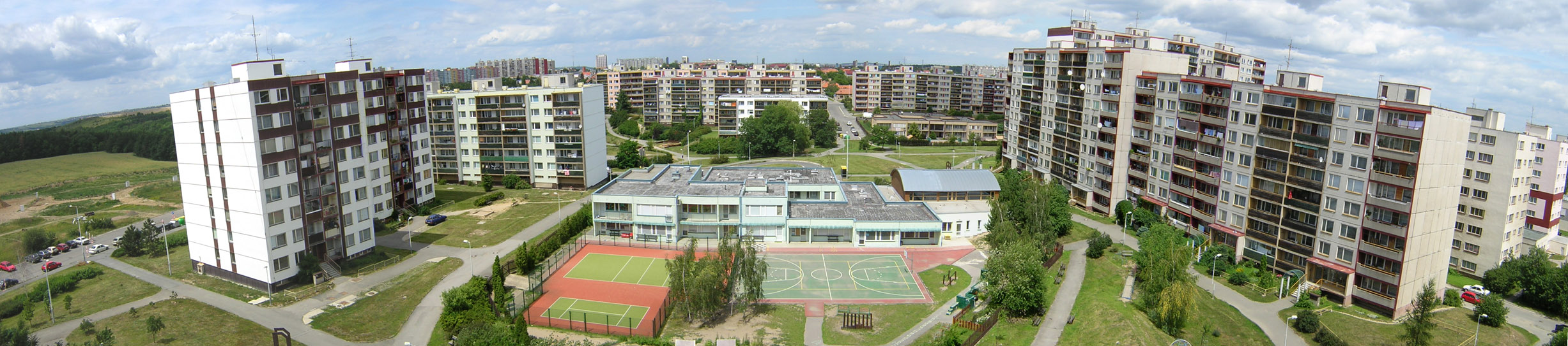 Prague-Písnice, Písnice Housing Estate.